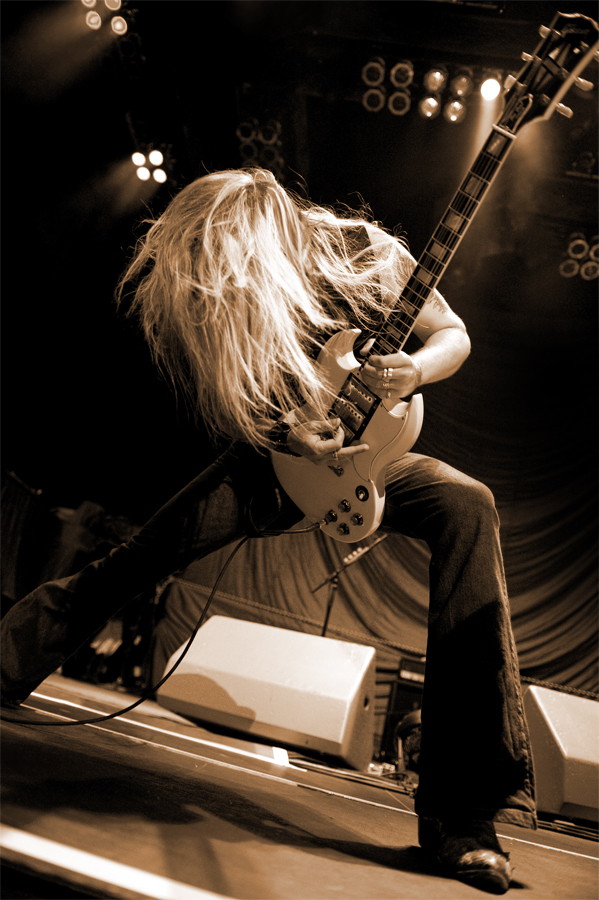 Richie Faulkner